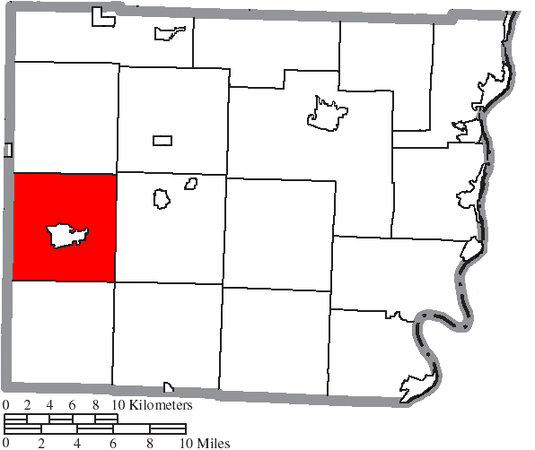 Map of the municipal and township boundaries of Belmont County, Ohio, United States, as of the 2000 census, with the location of Warren Township highlighted. Township borders are shown only in unincorporated areas in order to differentiate incorporated and unincorporated areas more clearly.